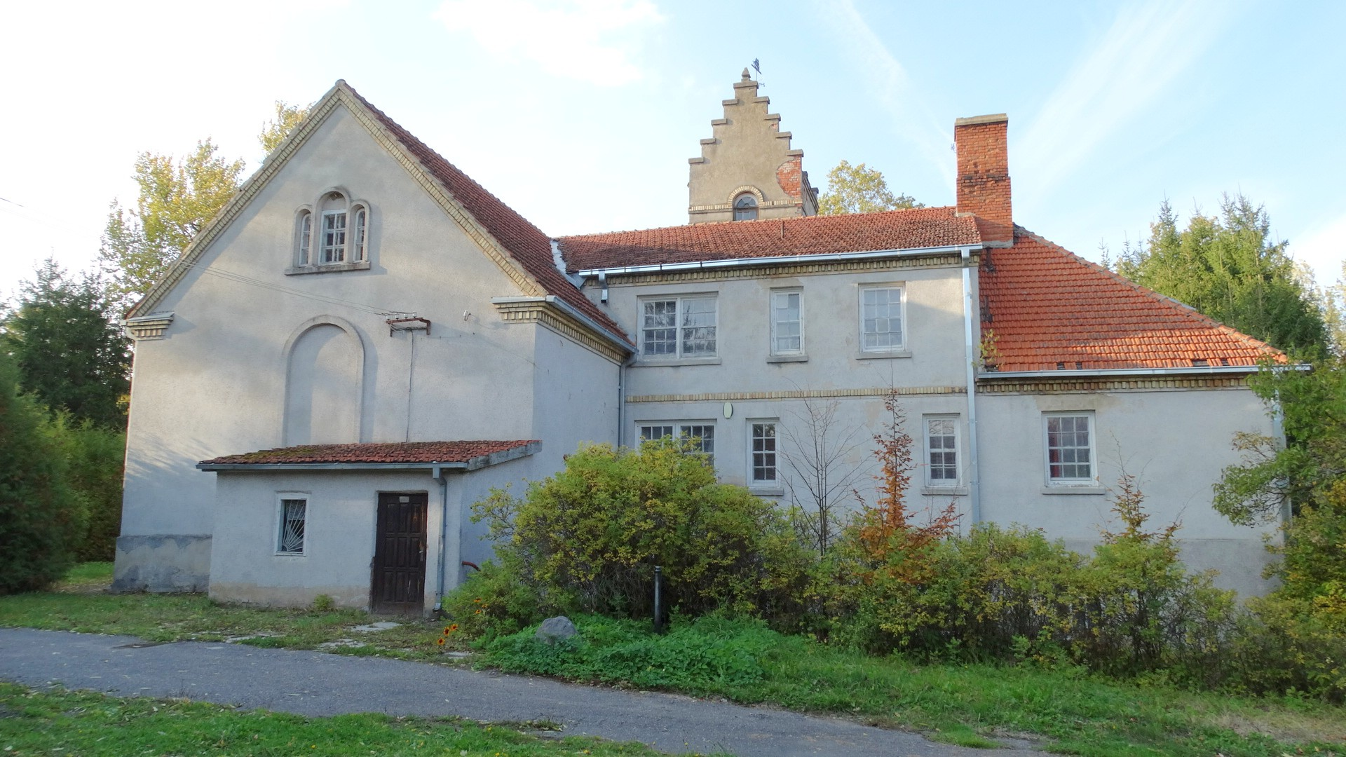 Former school, Kurnėnai, Alytus district, Lithuania